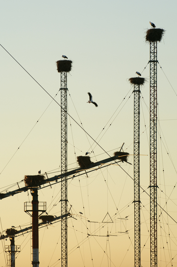 Radio Nacional de España Antennas at Arganda del Rey This photograph can be used for publications, including this copyright statement: “©PromoMadrid, author Max Alexander”.